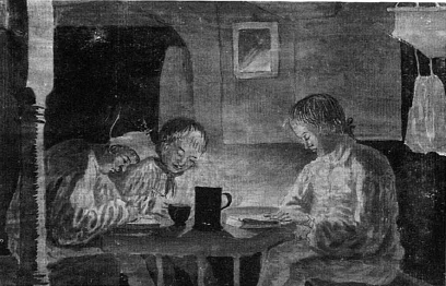 Midshipmen studying for Lieutenant's examination aboard HMS Pallas 1774-75